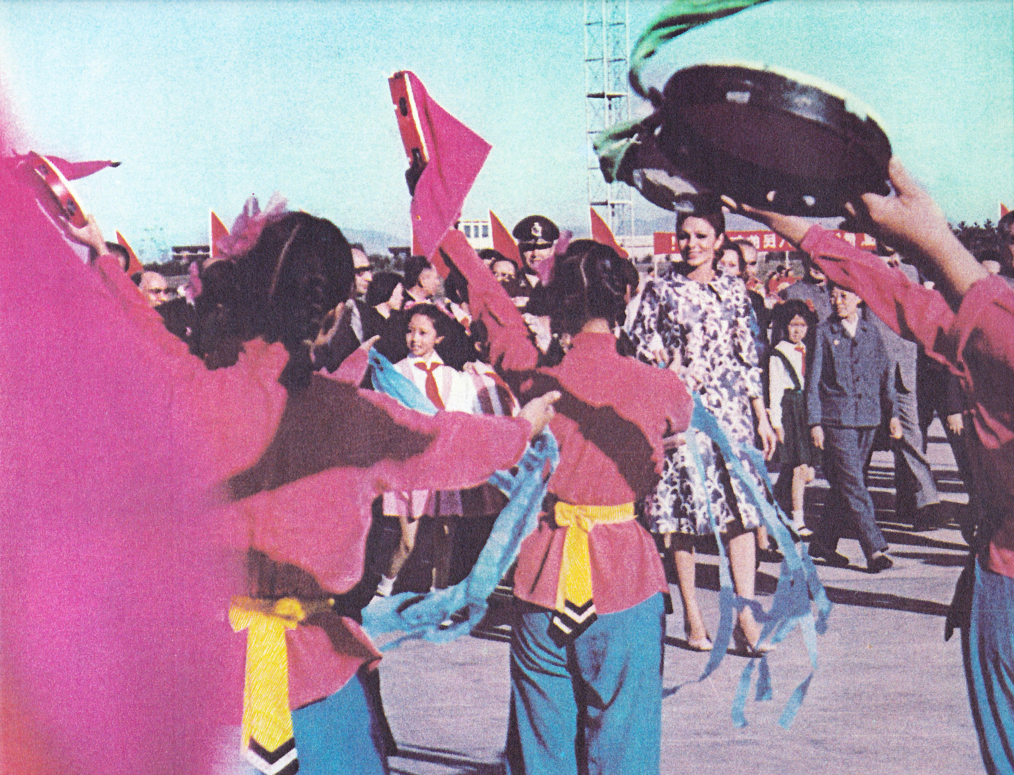 Schahbanu Farah Pahlavi, state visit China, 1972